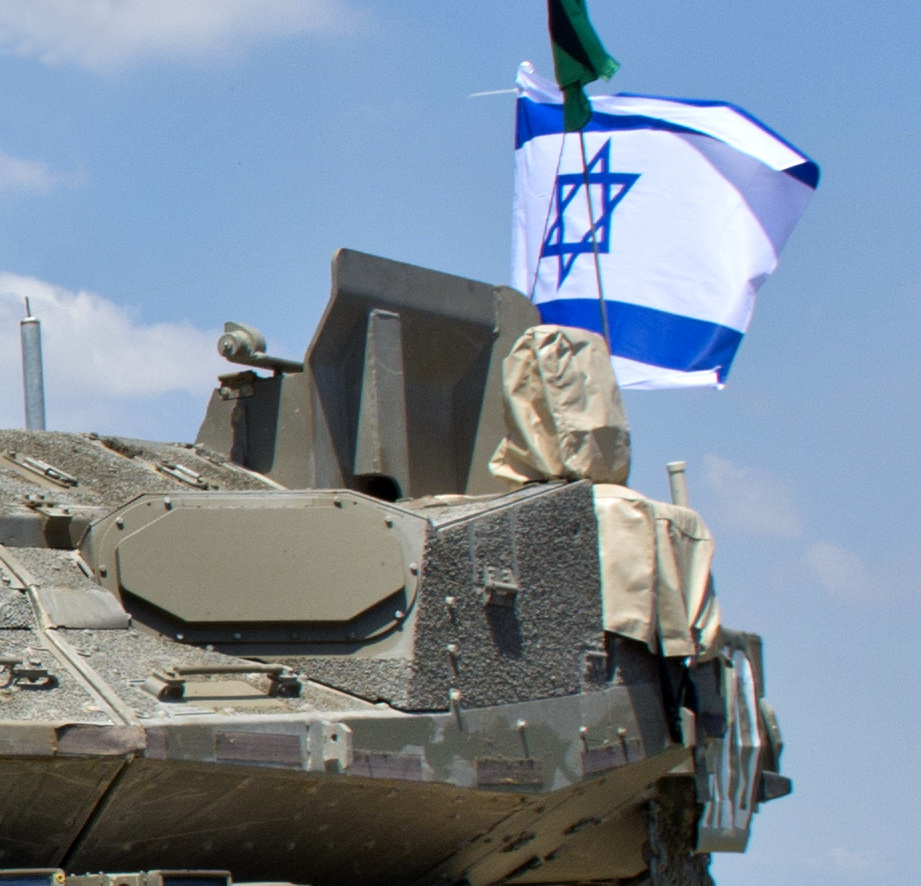 Close up on the Trophy APS, Merkava Mk 4M with Windbreaker (Trophy APS), Israel 68th Independence Day, Ground Army Exhibition, Yad LaShiryon, Israel